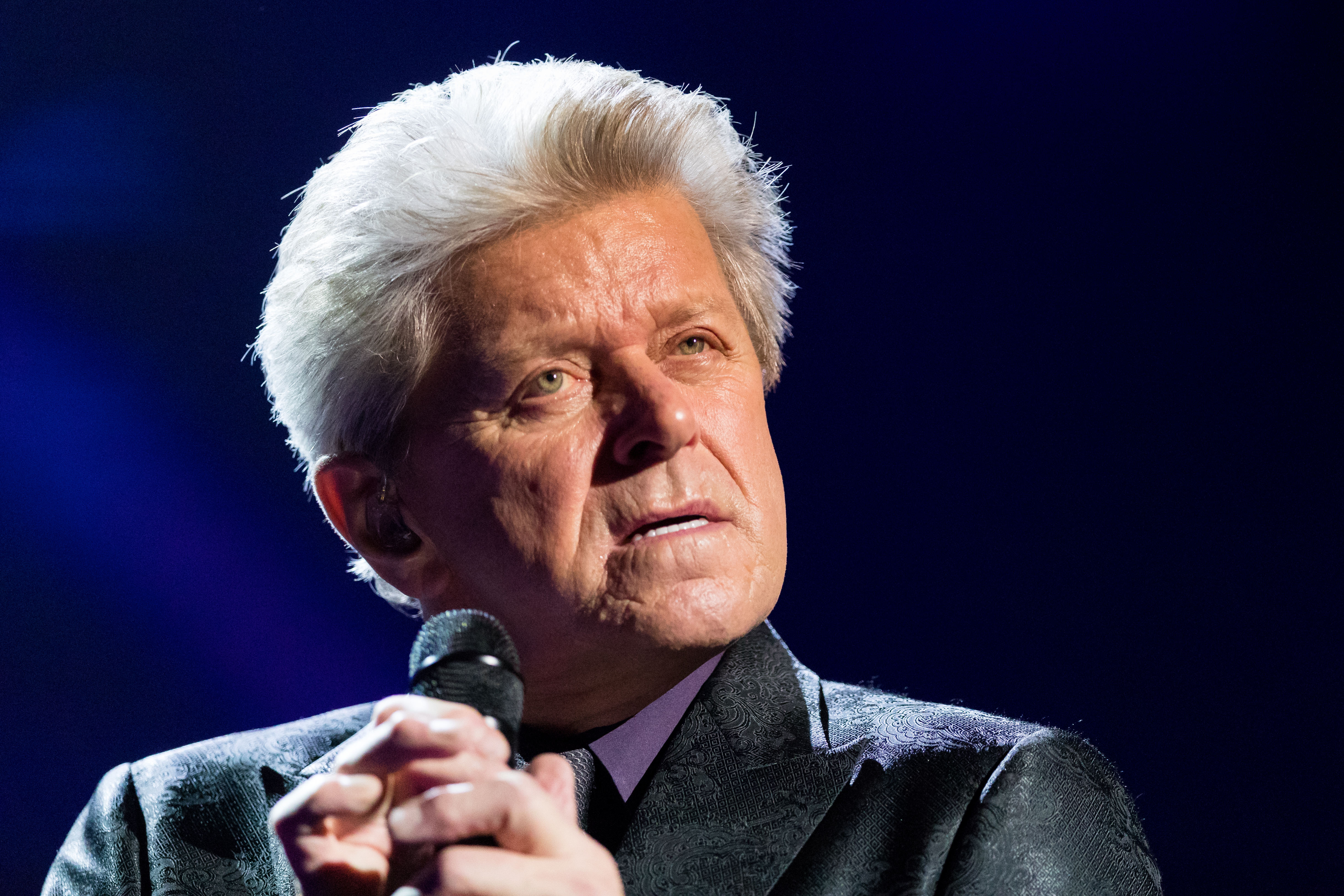 Peter Cetera during Night of the Proms at SAP Arena, Mannheim, Baden-Württemberg, Germany on 2017-12-22, Photo: Sven Mandel